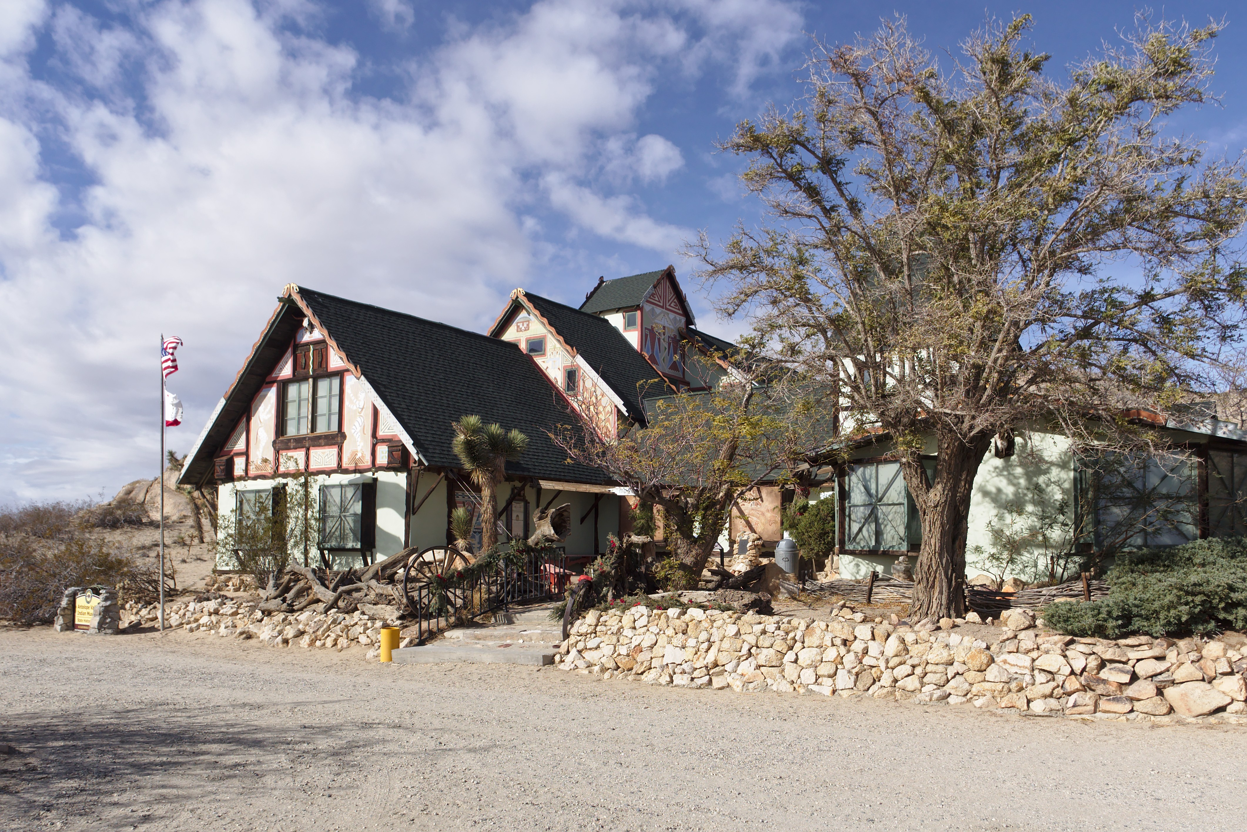 Antelope Valley Indian Museum view from southeast